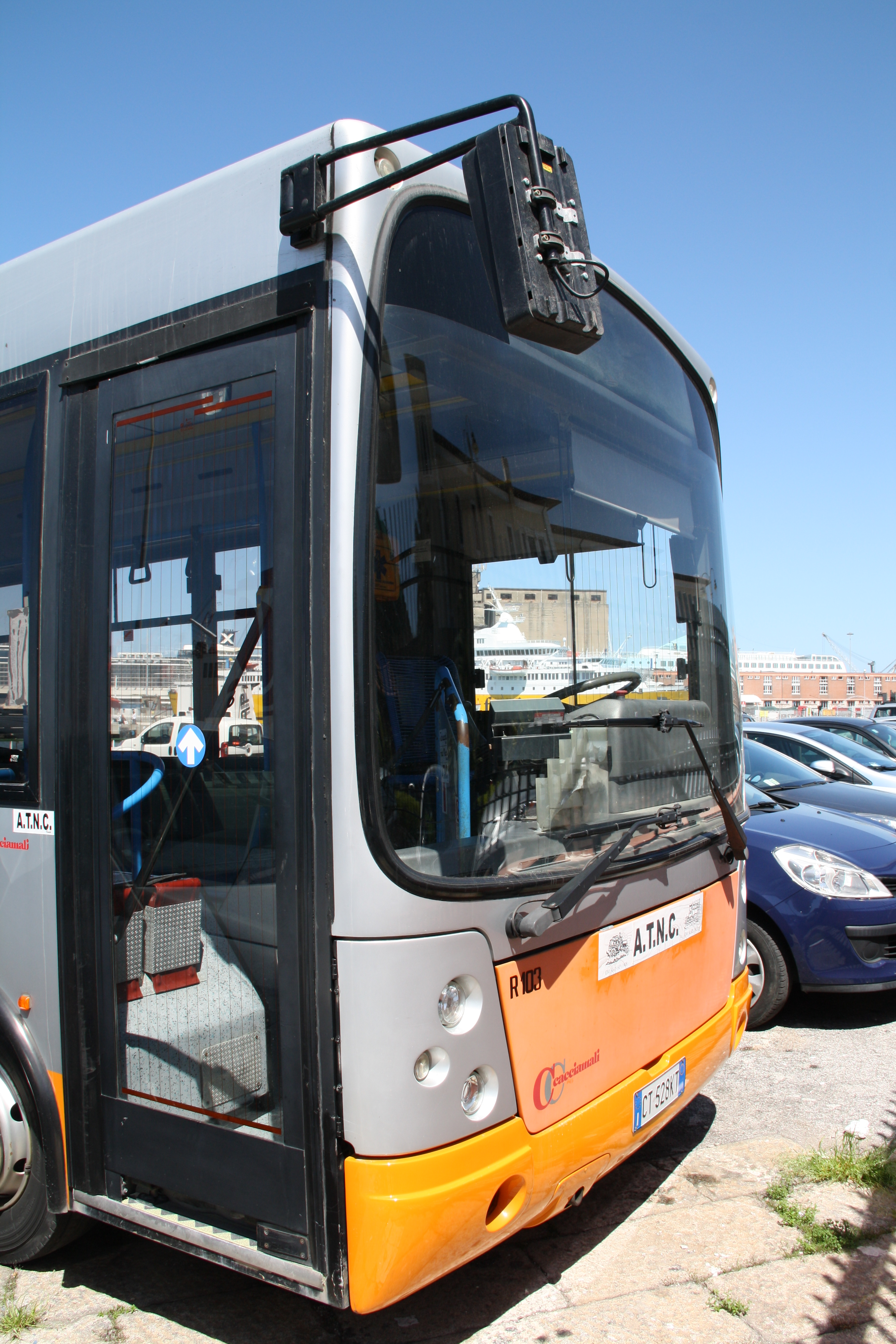 Italy, Tuscany, Capraia. ATNC Cacciamali Grifone bus in service on the island.